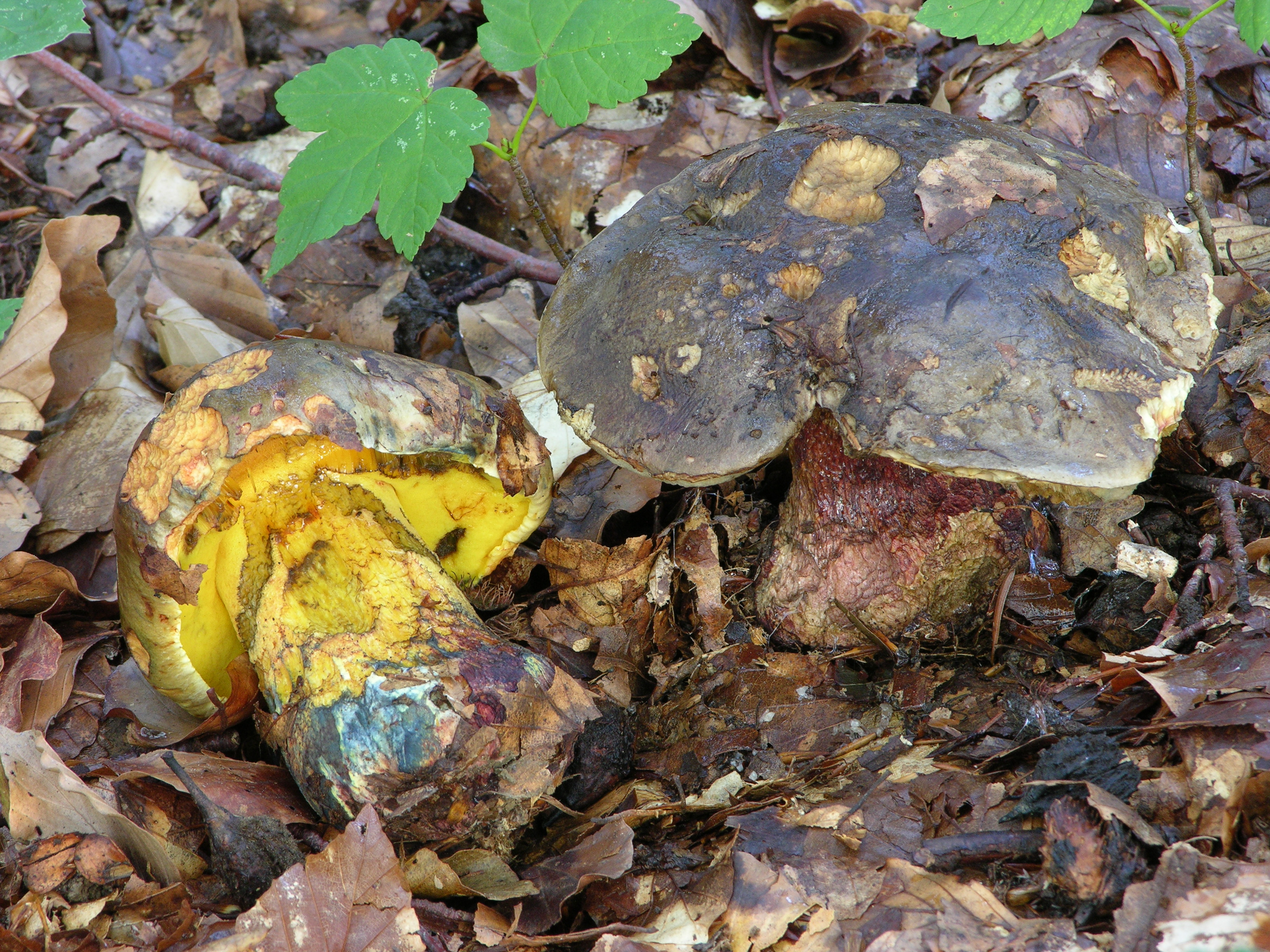 Boletus torosus